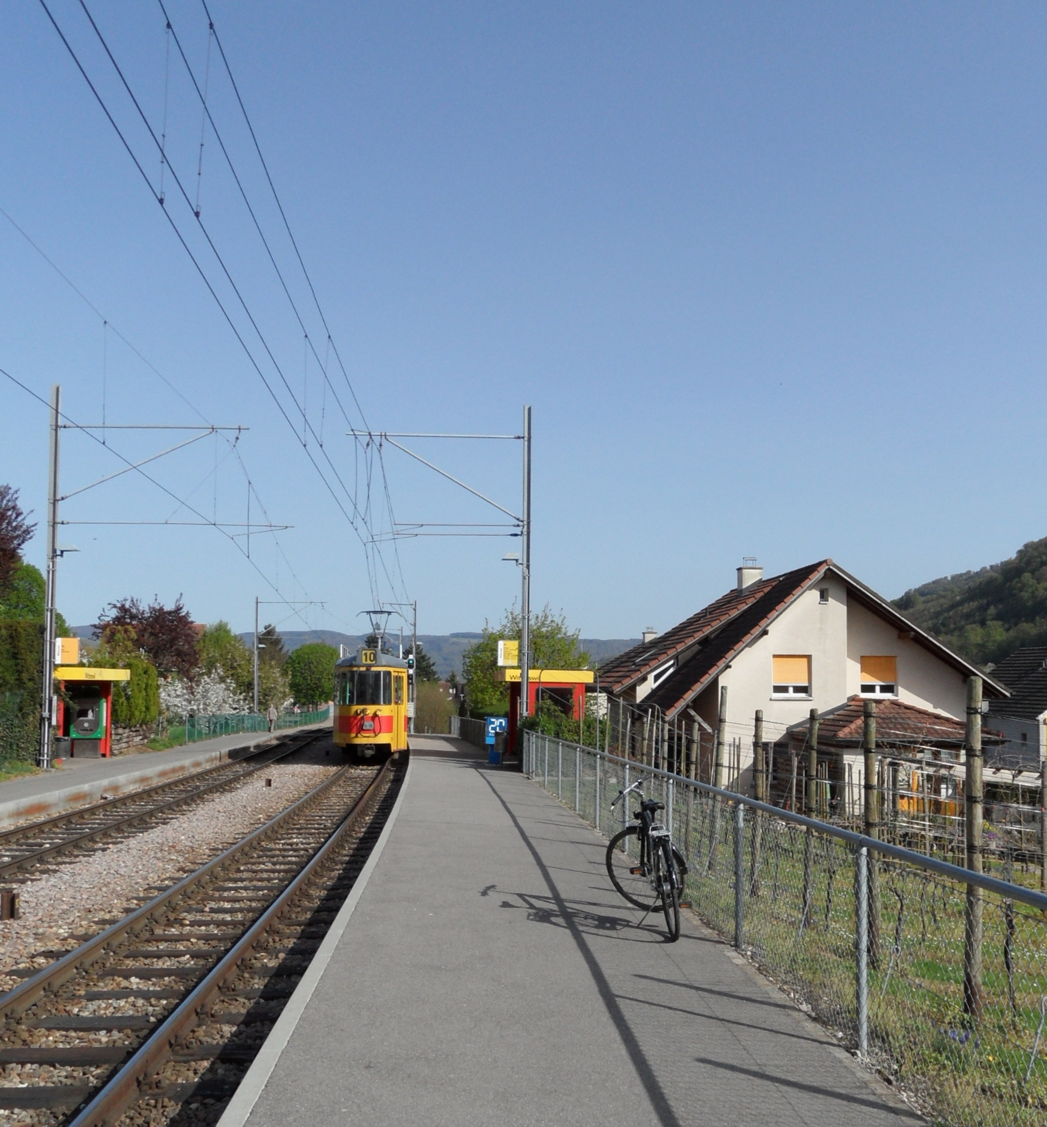 BLT (Baselland Transport) station of Witterswil, Canton of Solothurn, Switzerland.